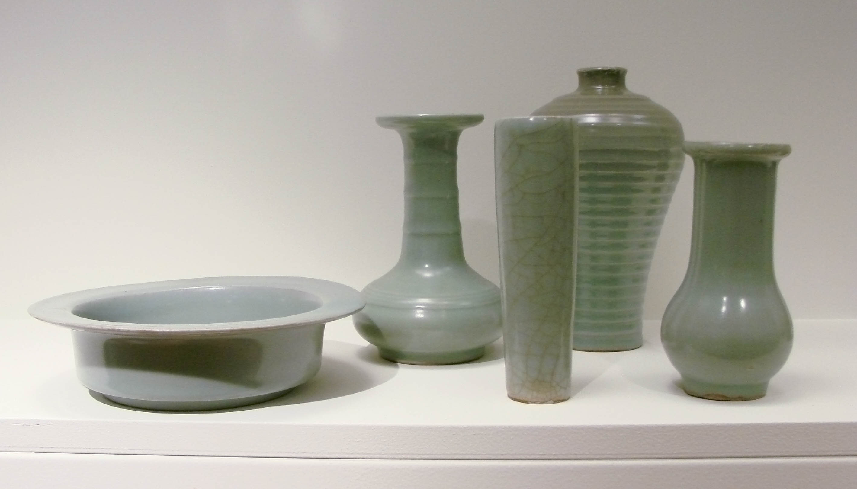 Longquan celadons produced in Longquan, Zhejiang, China. It was made in the 13th century during Song Dynasty of China and is currently exhibited at Musée Guimet, Paris